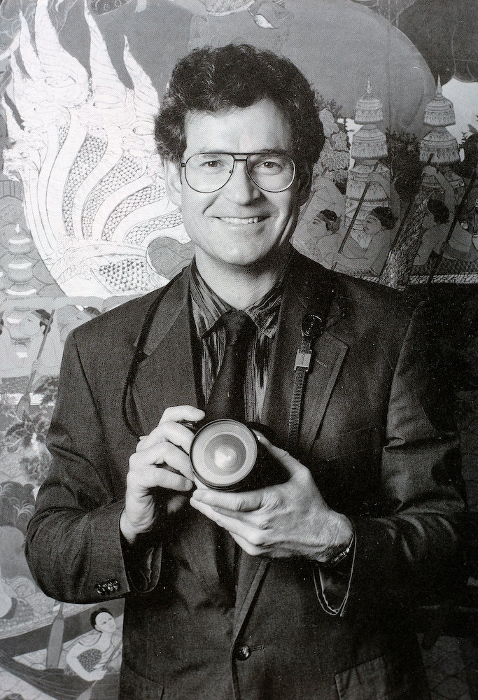 Portrait of Paul Chesley